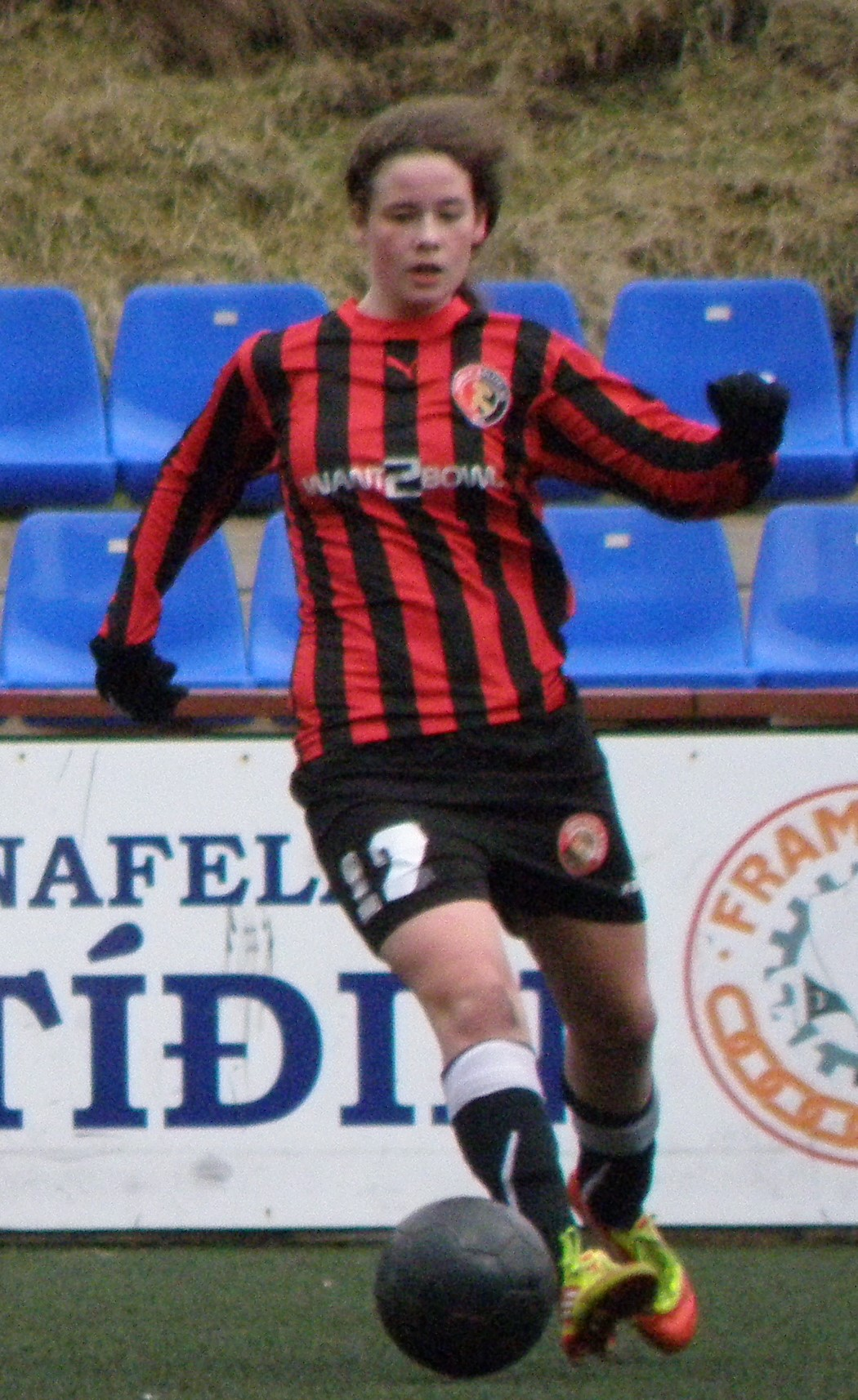 Lív Finnbogadóttir Arge is a Faroese football player.